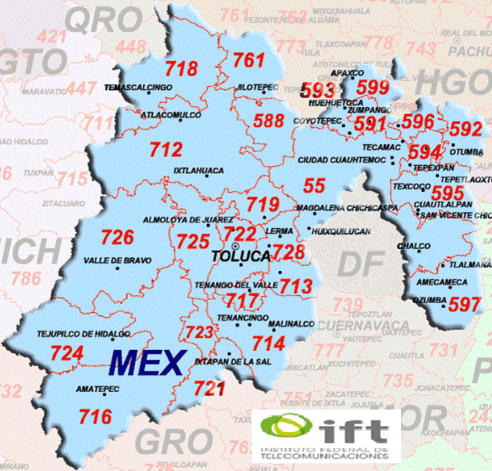 Area Code Maps for the Mexican State of Mexico